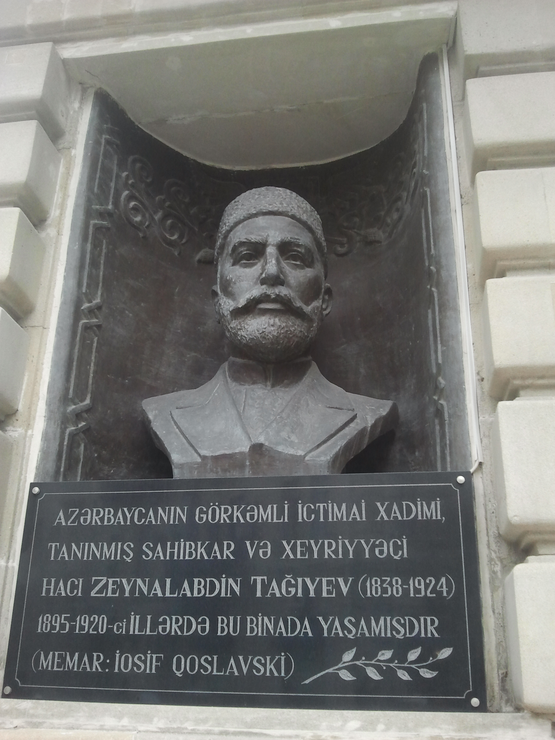 Plaque on building where Azerbaijani public figure Zeynalabdin Taghiyev lived in Baku